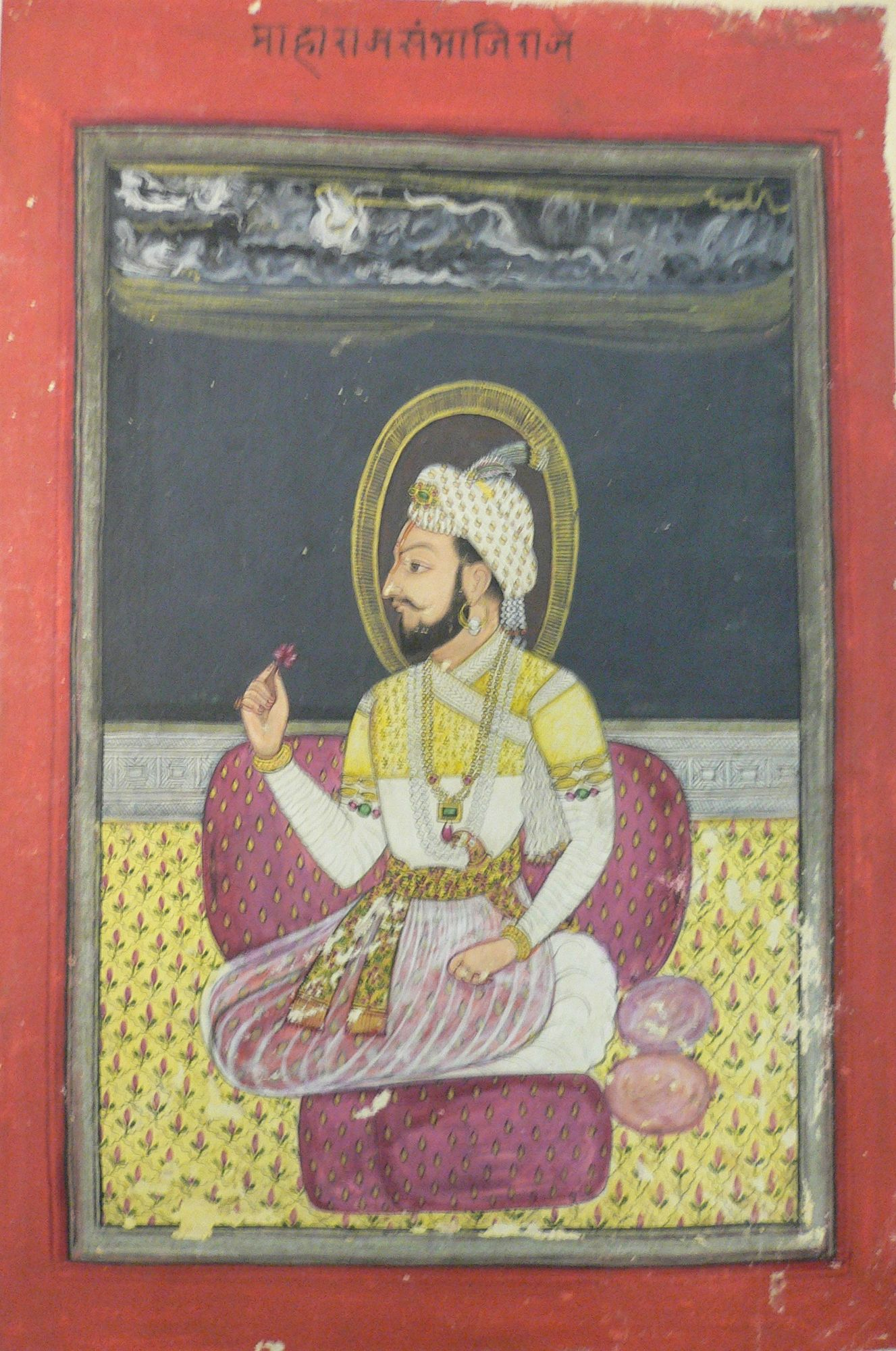 The inscription at the top reads Maharaja Sambhajiraje.